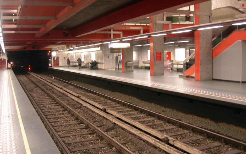 Platforms of Naamsepoort / Porte de Namur station, Brussels metro